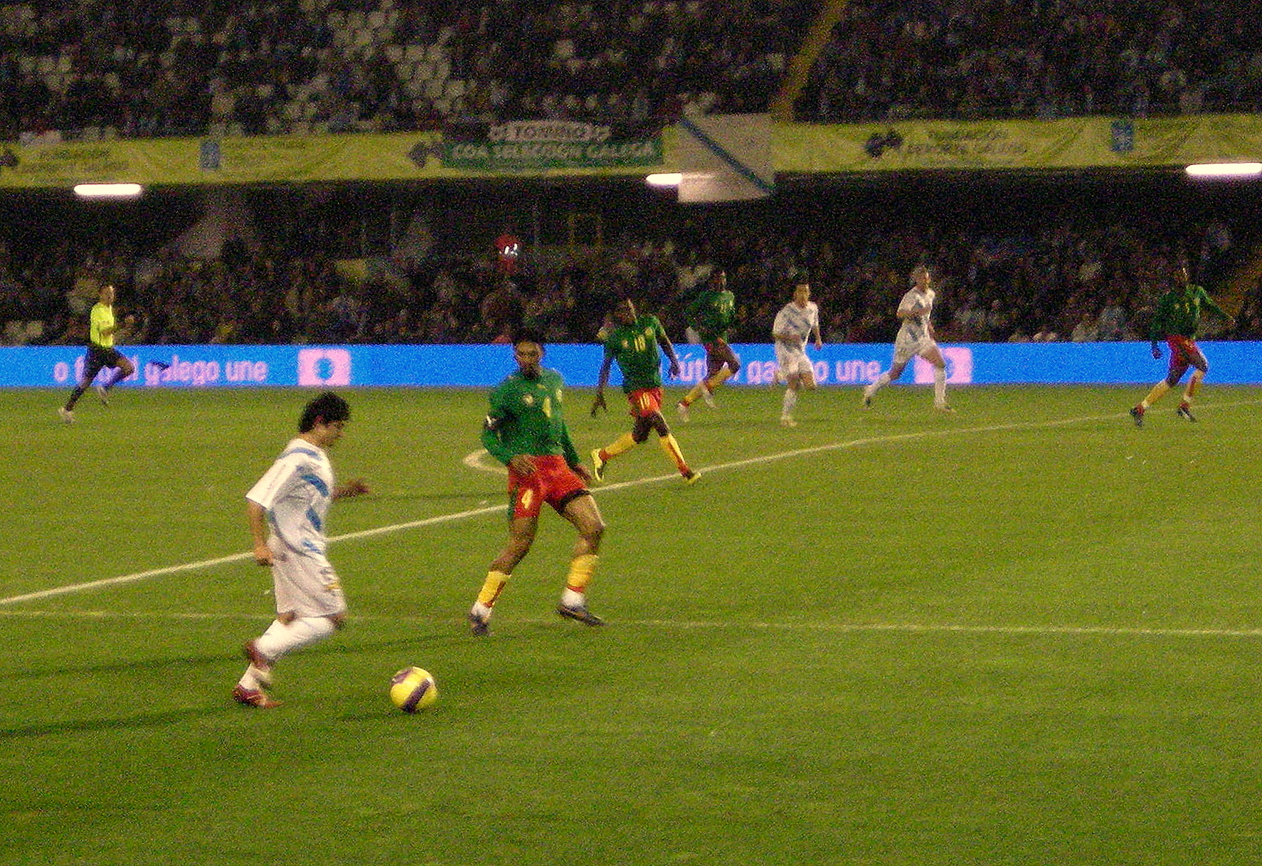 Jonathan Pereira during Galicia - Cameroon football match on December 27, 2007